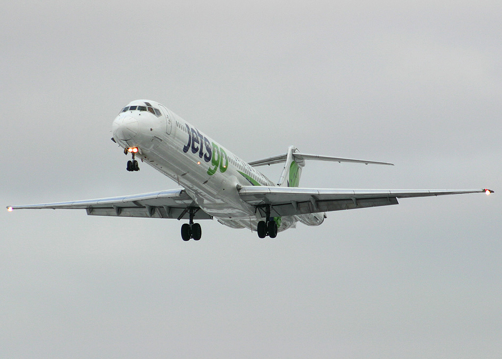 A Jetsgo MD-83 on final approach to land at Toronto Pearson Int'l Airport